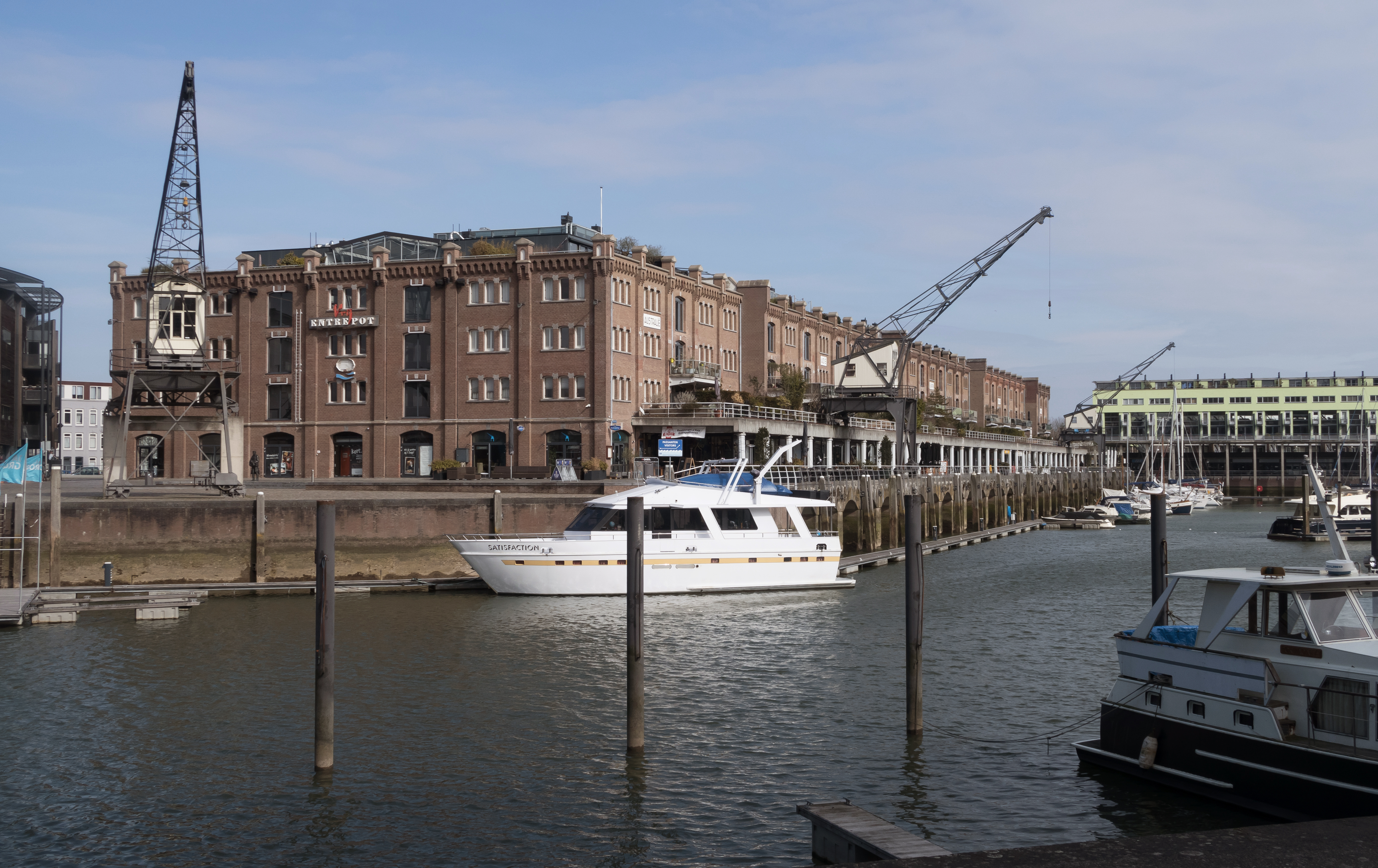 Rotterdam, port (de Entrepothaven)